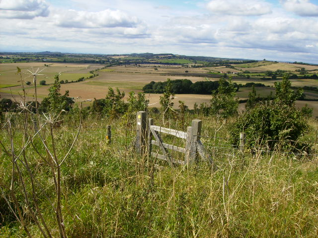 View of Howardian Hills AONB from Sofwood Thorns